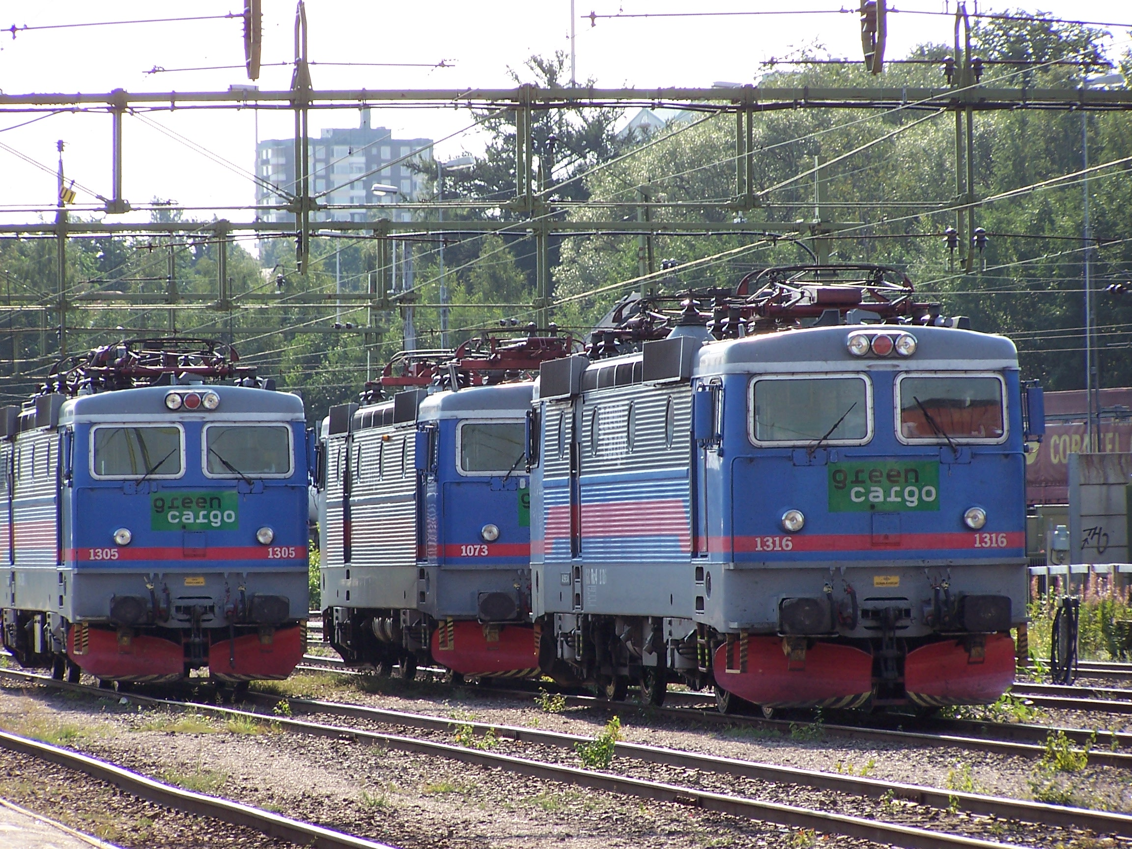 Three engines of type Rc4, Sundsvall, Sweden.